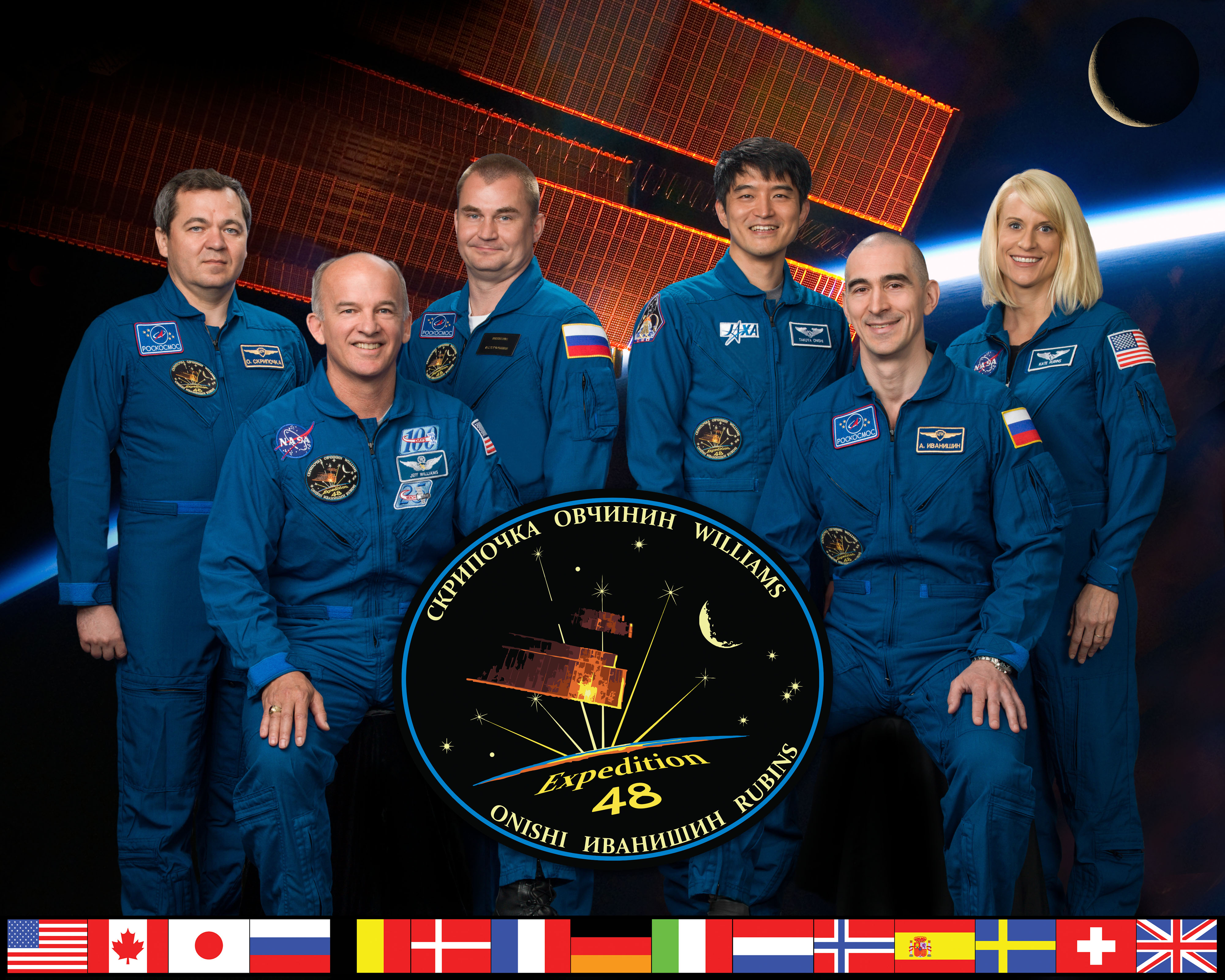 Expedition 48 crew portrait with 46S crew (Jeff Williams, Oleg Skripochka, Aleksei Ovchinin) and 47S crew (Anatoli Ivanishin, Kate Rubins, Takuya Onishi).